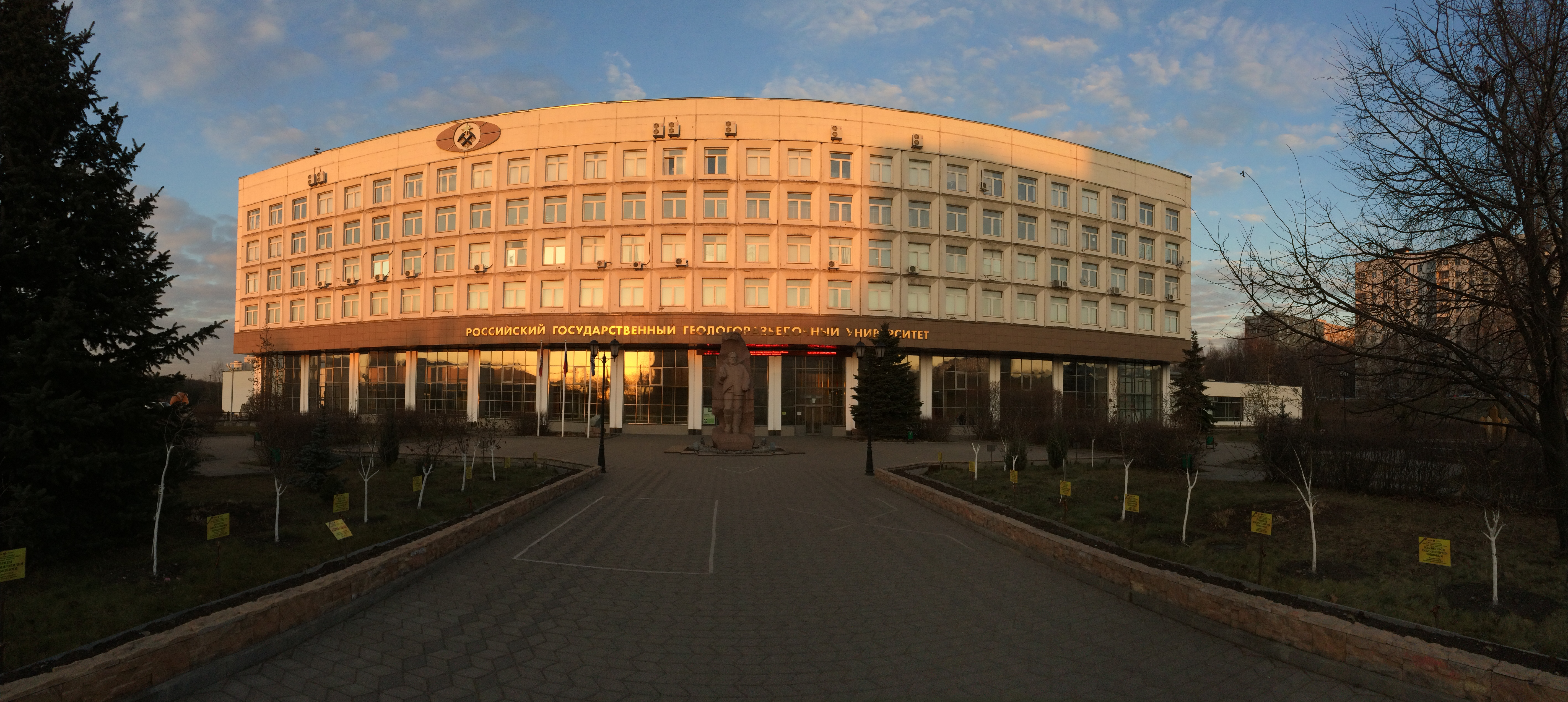 Russian State Geological Prospecting University